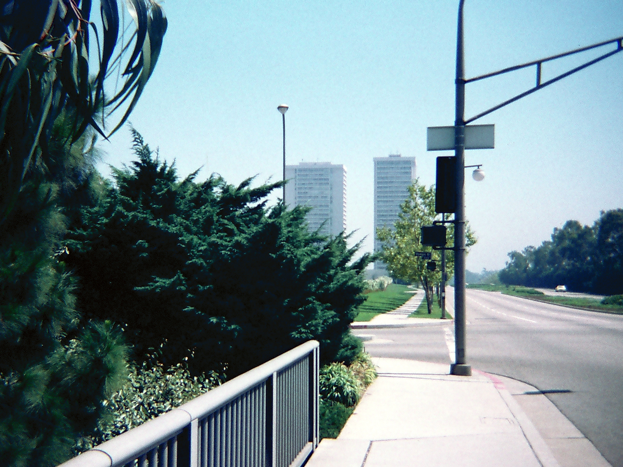 Century Towers in Century City, California.